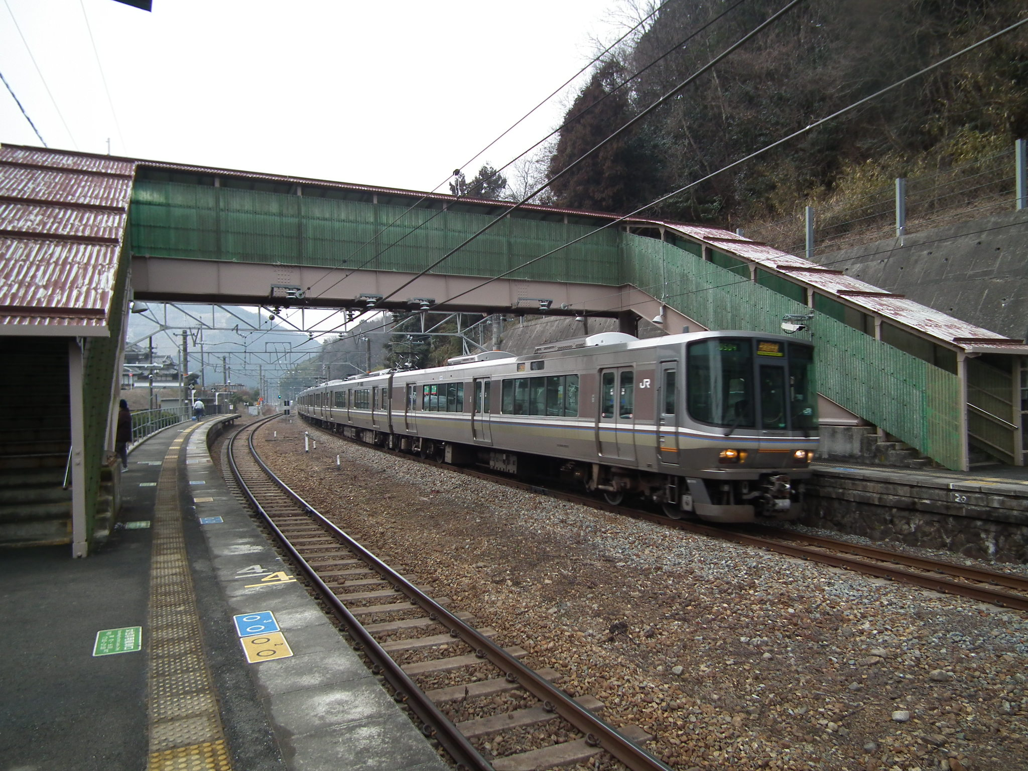 JR West 223 series EMU for Tambaji Rapid Service train stopping at Furuichi Station in Sasayama, Hyogo, Japan